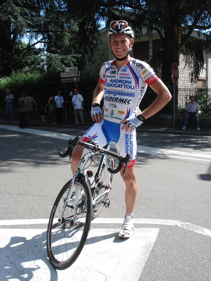 Cameron Wurf - Team Androni Diquigiovanni